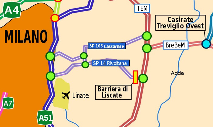 Scheme of the BreBeMi Motorway, Italy